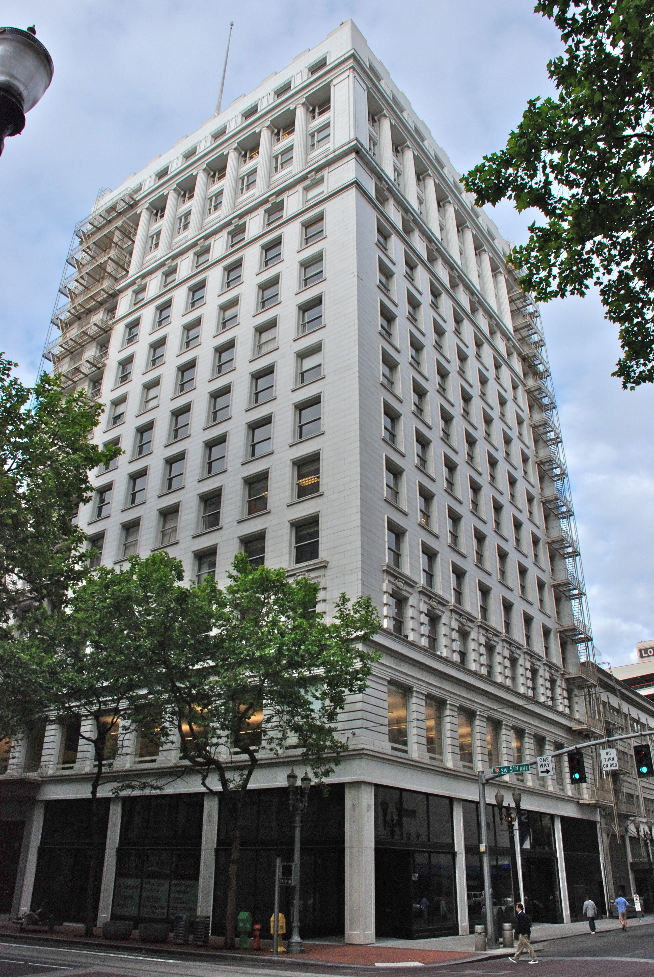 The Yeon Building (built in 1883), in downtown Portland, Oregon, is listed on the U.S. National Register of Historic Places. It is located at the northeast corner of the intersection of 5th Avenue and Alder Street. This photo is from across the intersection, looking east.